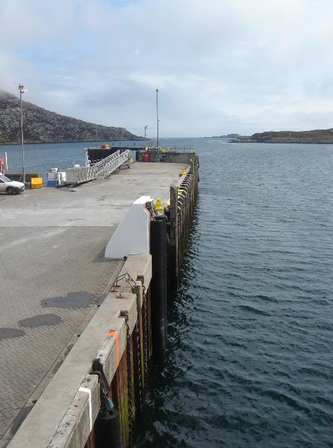 Lochboisdale Pier. The destination for Calmac ferries from Oban and Castlebay.